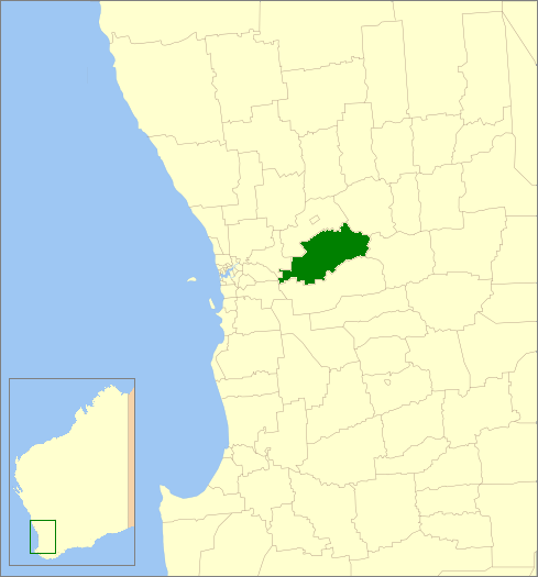 Description=Location of the Local Government Area in Western Australia